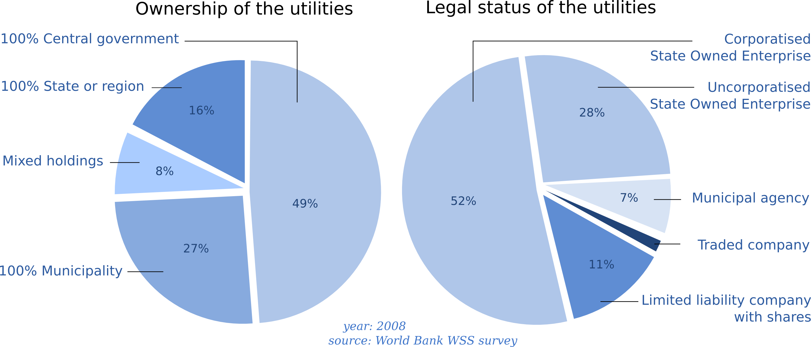 The involvement of private investors in Sub-Saharan Water Utilities: one pie charts that shows the distribution of the different legal statuses and another pie chart shows the types of ownership of all Sub-Saharan water utilities.